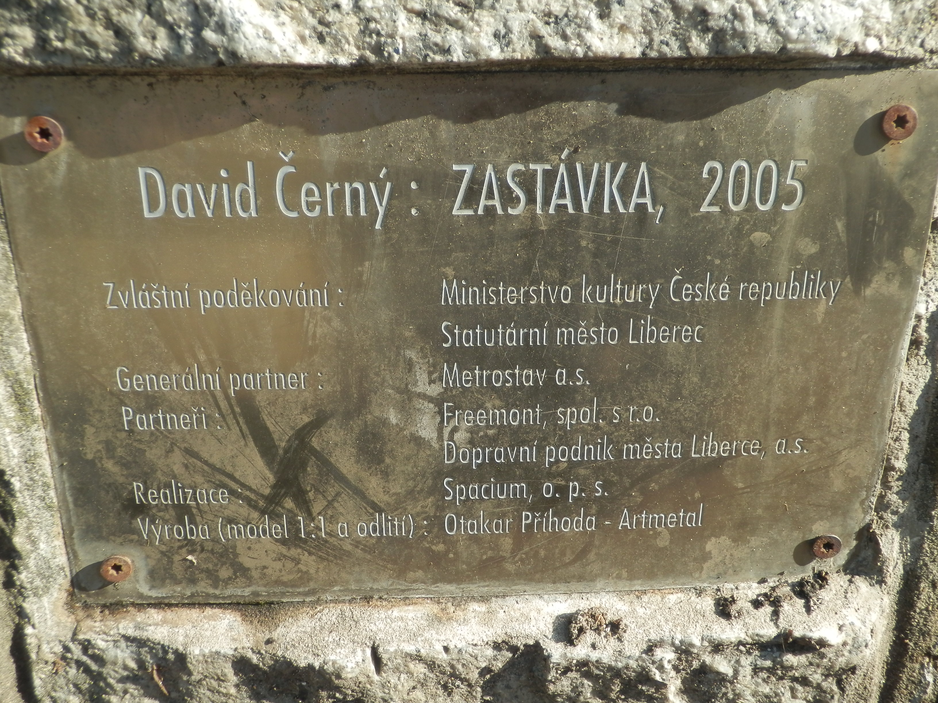 The feast of Giants Stop Liberec Czech Republic Аҧсшәа: Riesenmahlzeit Bushaltestelle in Liberec Tschechien